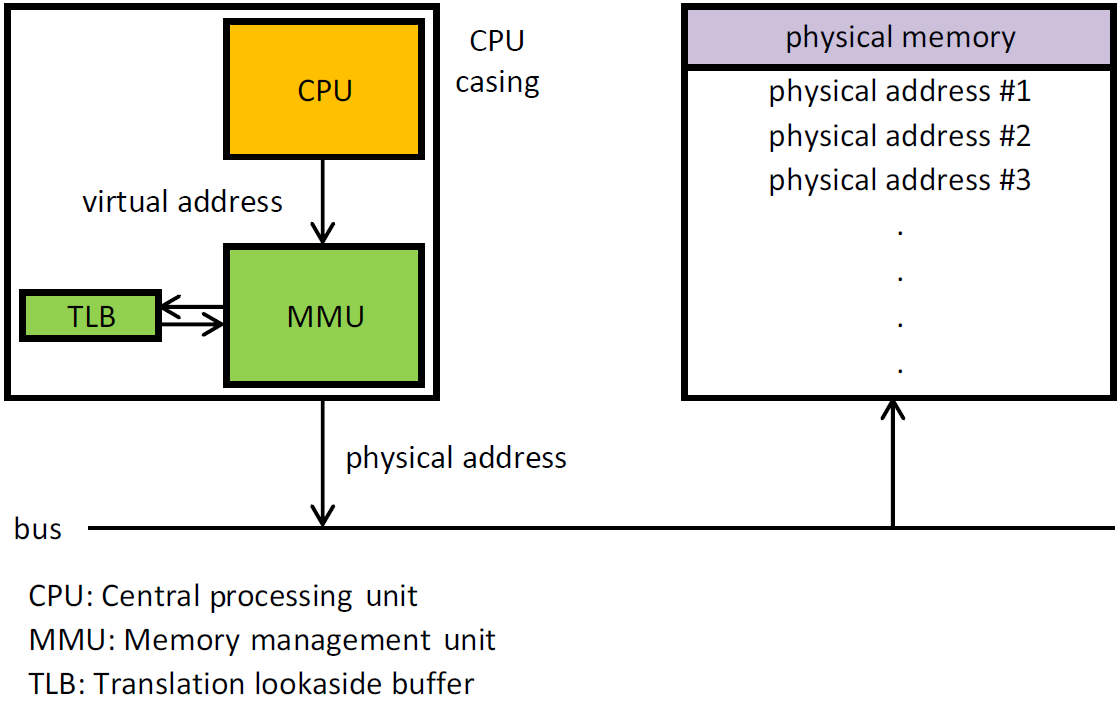 How a MMU works